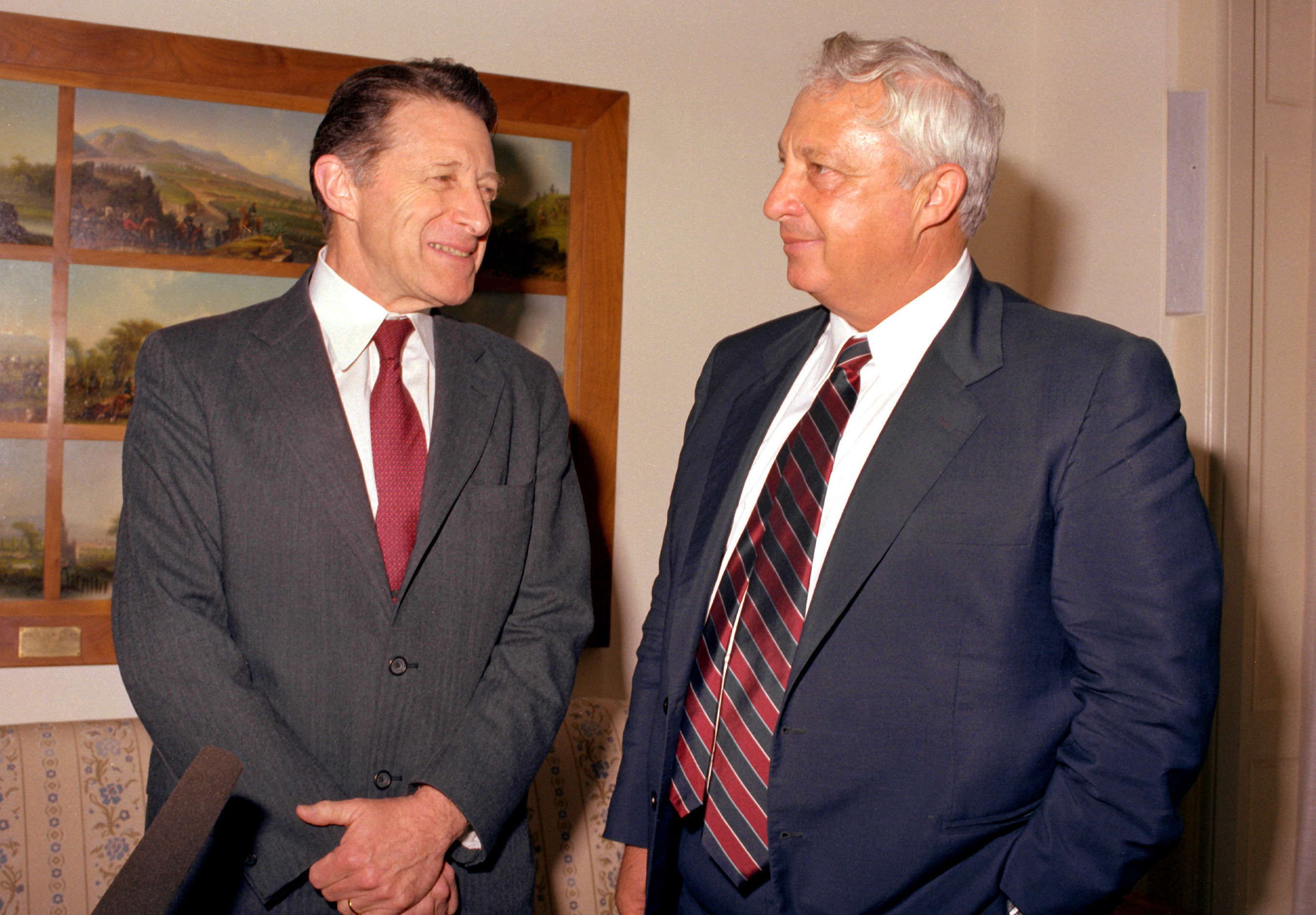 Secretary of Defense Caspar W. Weinberger meets with Minister of Defense Ariel Sharon of Israel in his office in the Pentagon, Room 3E880